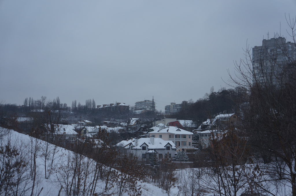 Winter view of Batyjeva Hora in Kyiv, Ukraine